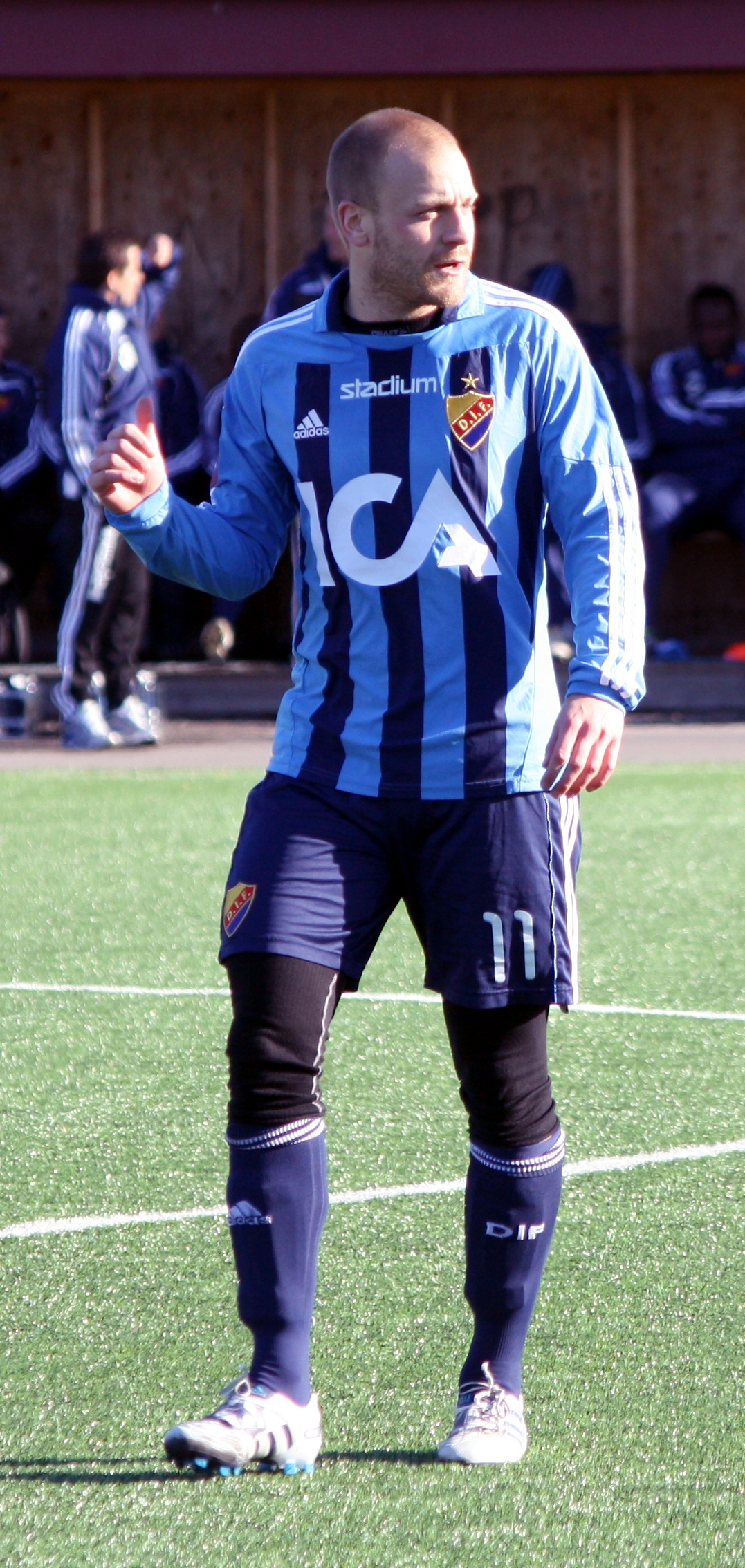 Finnish football player Daniel Sjölund